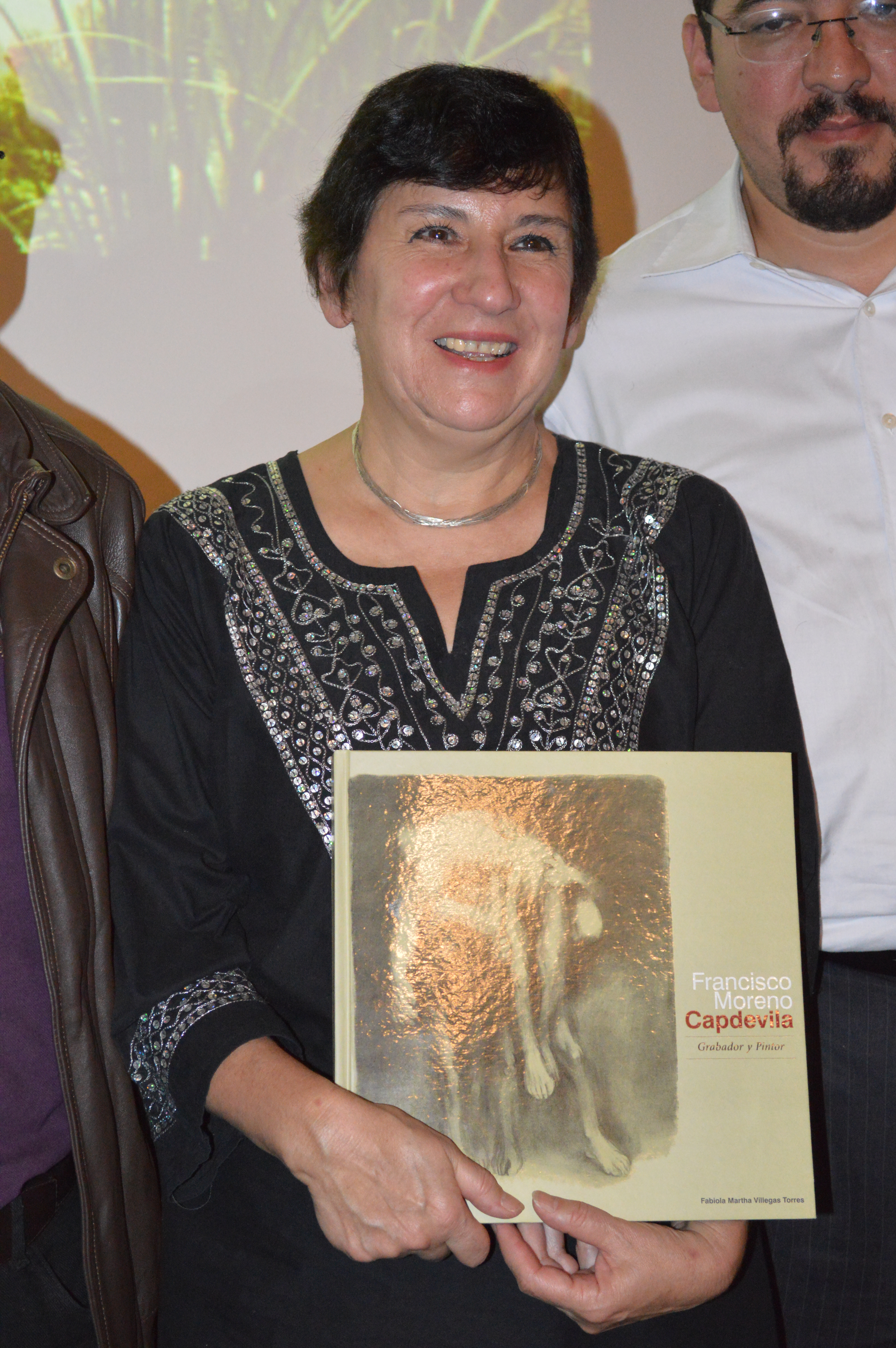 Dr. Fabiola Martha Villegas Torres at the book presentation about Spanish-Mexican artist Francisco Moreno Capdevila at the Spanish embassy